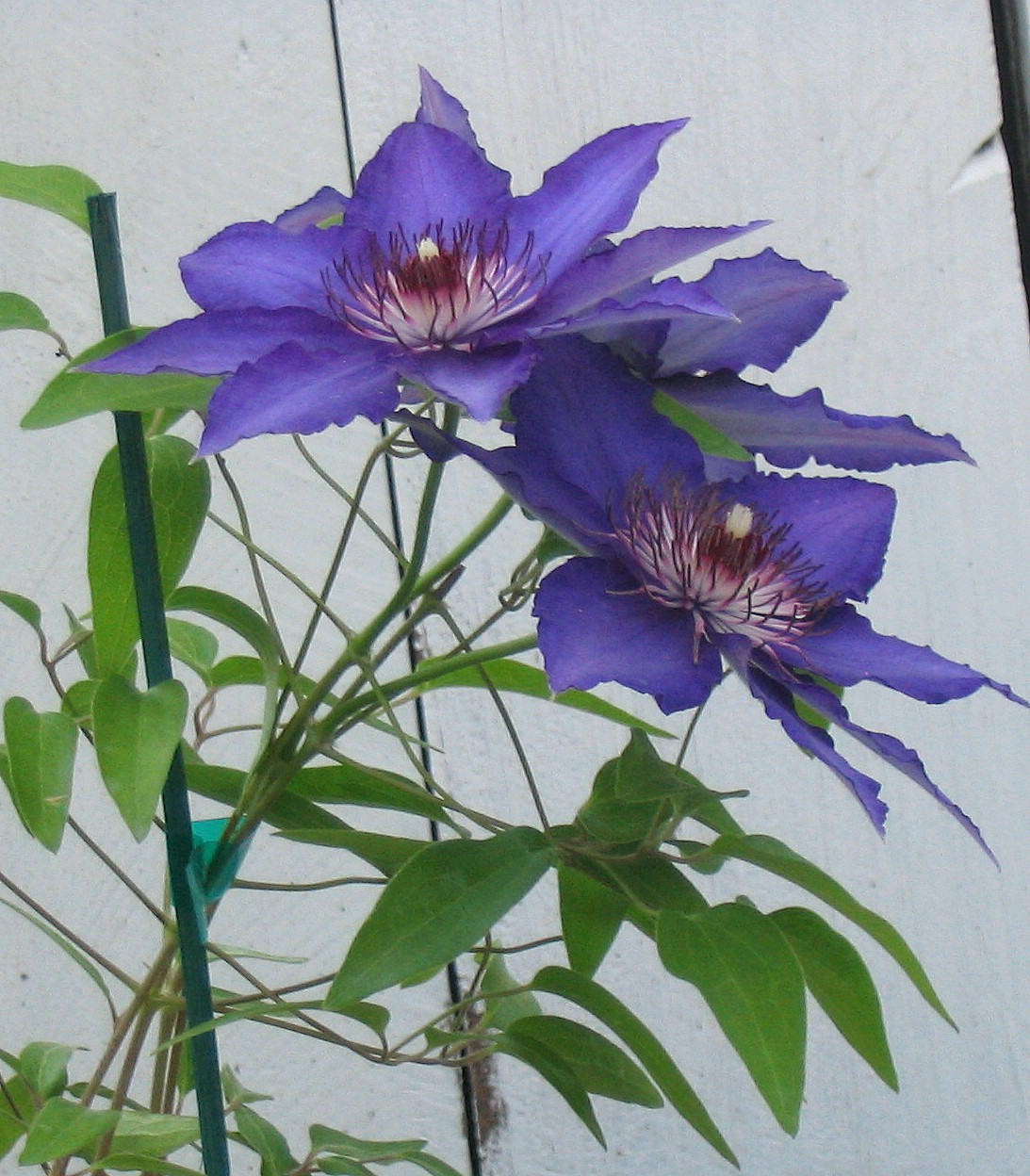 Clematis Cultivar Genus Clematis Family Ranunculaceae used in Article Clematis.